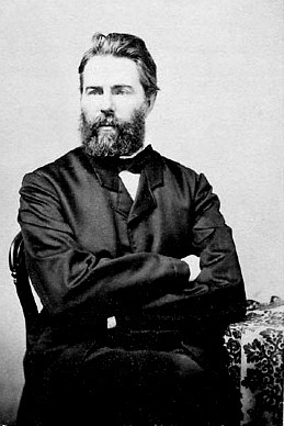 Herman Melville, American author. Reproduction of photograph, frontispiece to Journal Up the Straits.